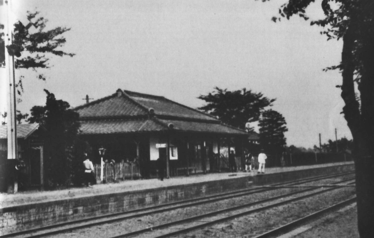 Sugito Station (present-day Tobu Dobutsukoen Station) in Saitama Prefecture in the early Taisho period